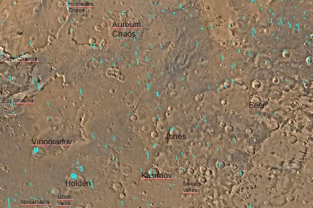 Map of Margaritifer Sinus quadrangle with labels. The small, colored rectangles represent image footprints for the narrow angle camera on the Mars Global Surveyor. Some are about 1 mile wide, the otheers are about 2 miles wide. The map was made by the U.S. Geological survey for NASA.